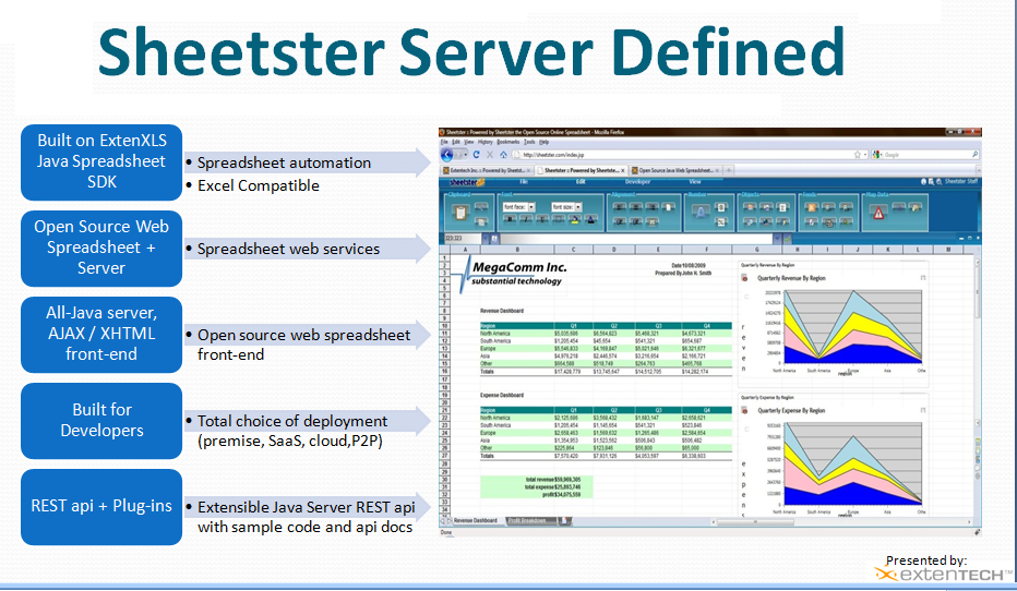 Sheetster server definition